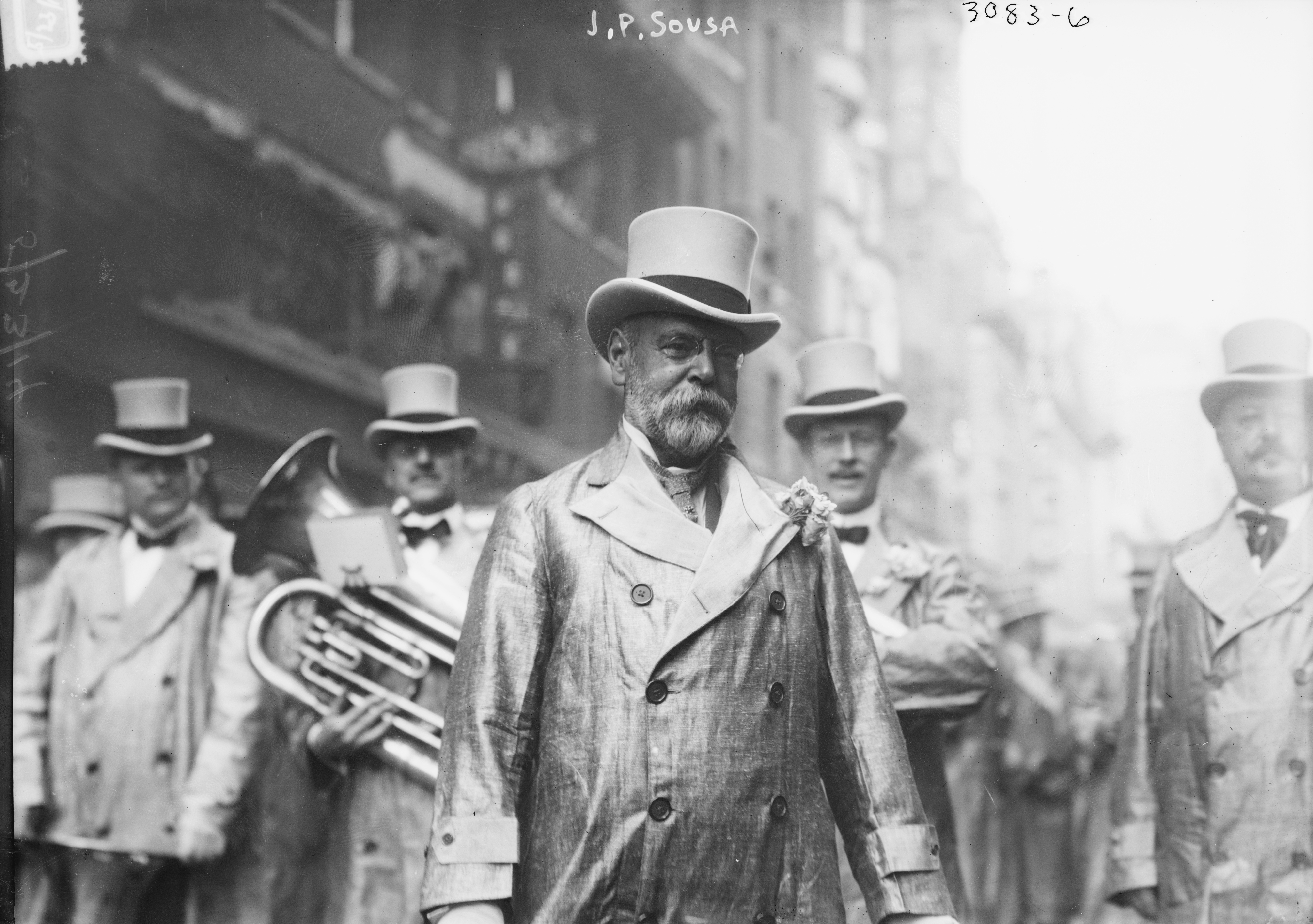 U.S. composer and conductor John Philip Sousa wearing top hat standing in front of marching band.